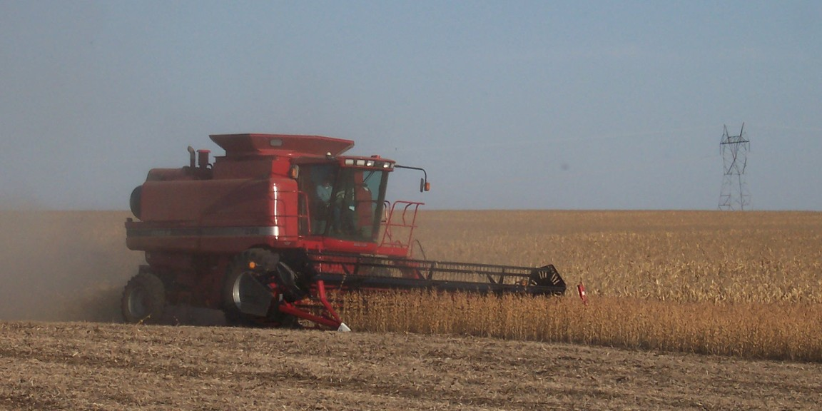 Combine Harvester in operation, Lyon County Iowa 2006.